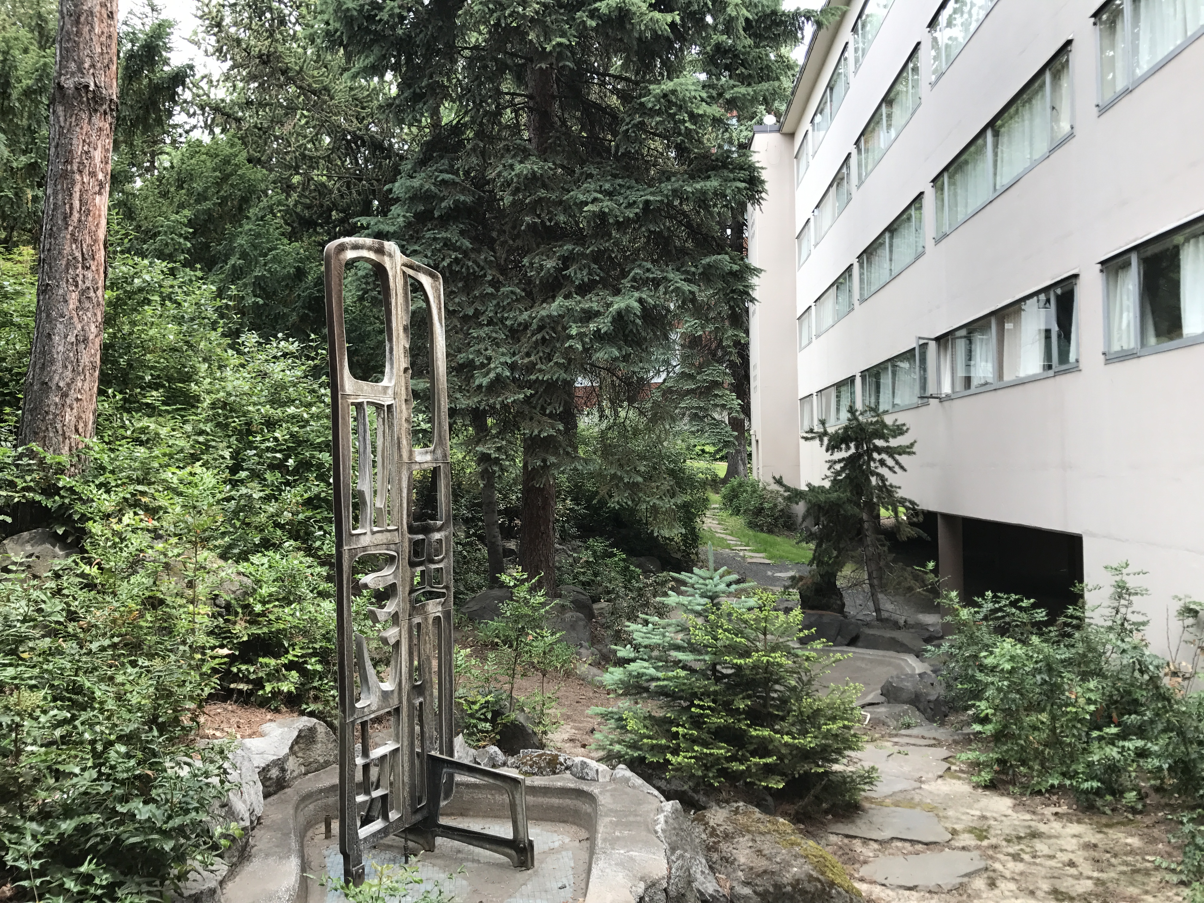 View of the Japanese-inspired garden behind McGregor Hall at Regents Hill